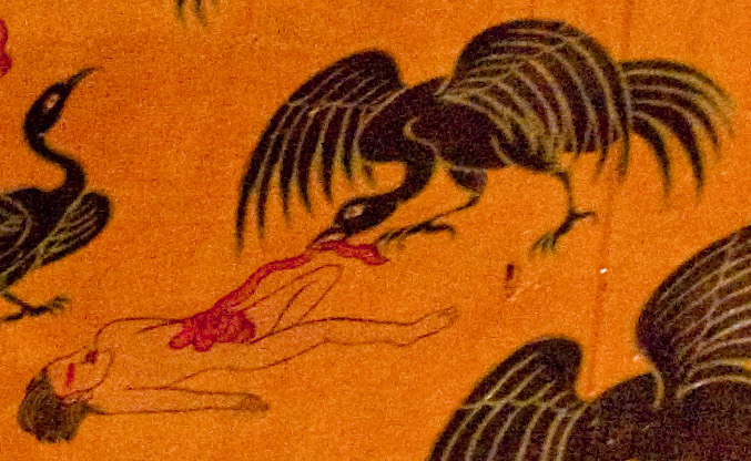 Burials in Tibet (in Litang monastery)